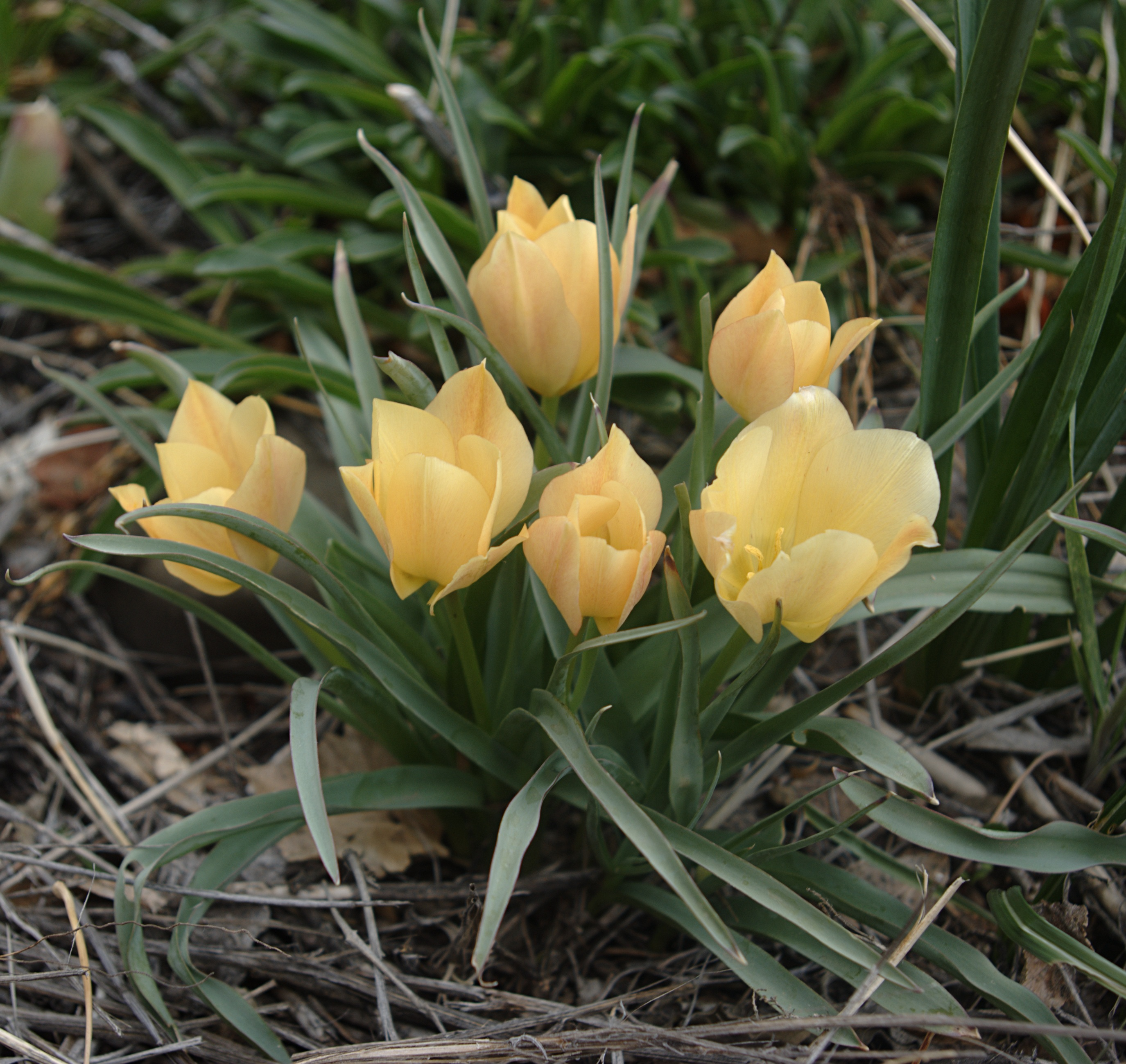 Tulipa linifolia (syn. T. batalinii) cv. 'Bright Gem' in my garden, Española, New Mexico, in a cloudy moment on a sunny day. Penstemon strictus leaves in the background, daffodil at right.